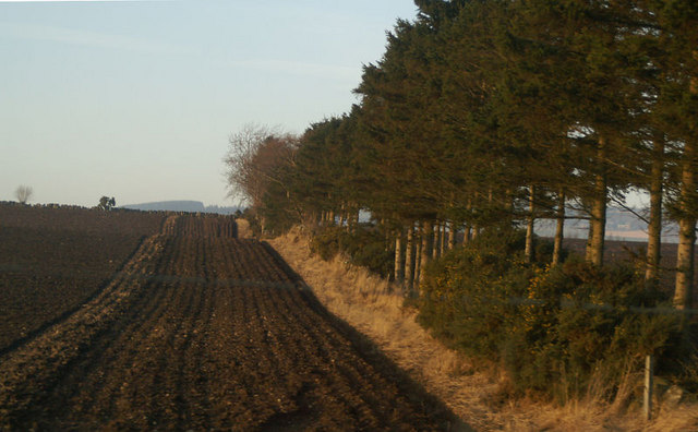 Windbreak near New Alyth A line of trees beside a ploughed field.